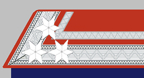 K.u.k. Stabsfeldwebel (First-Sergeant) cherry-red collar. Rank insignia was in use from 1914-1918.